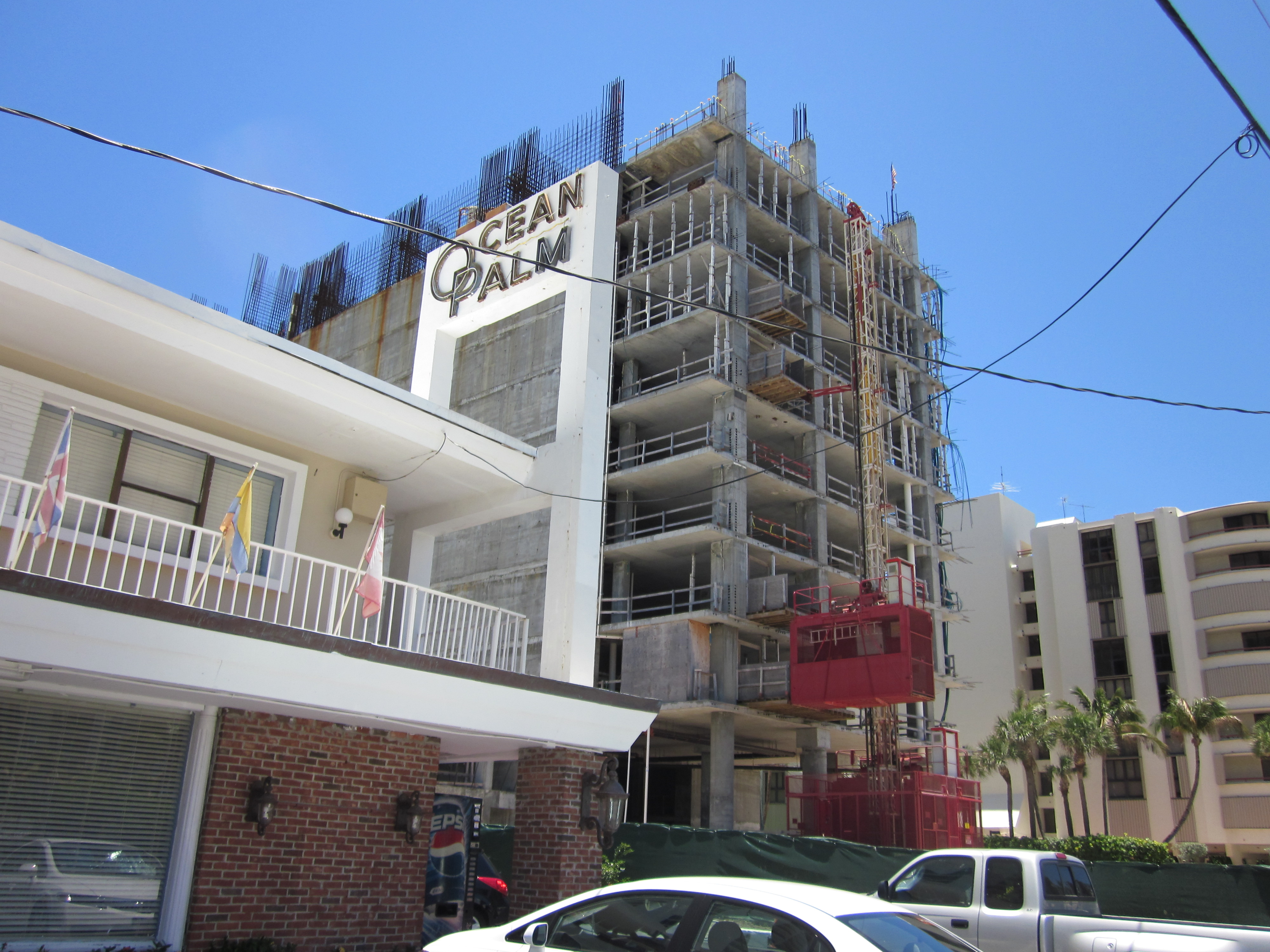 Hotel in Sunny Isles Beach, Florida.